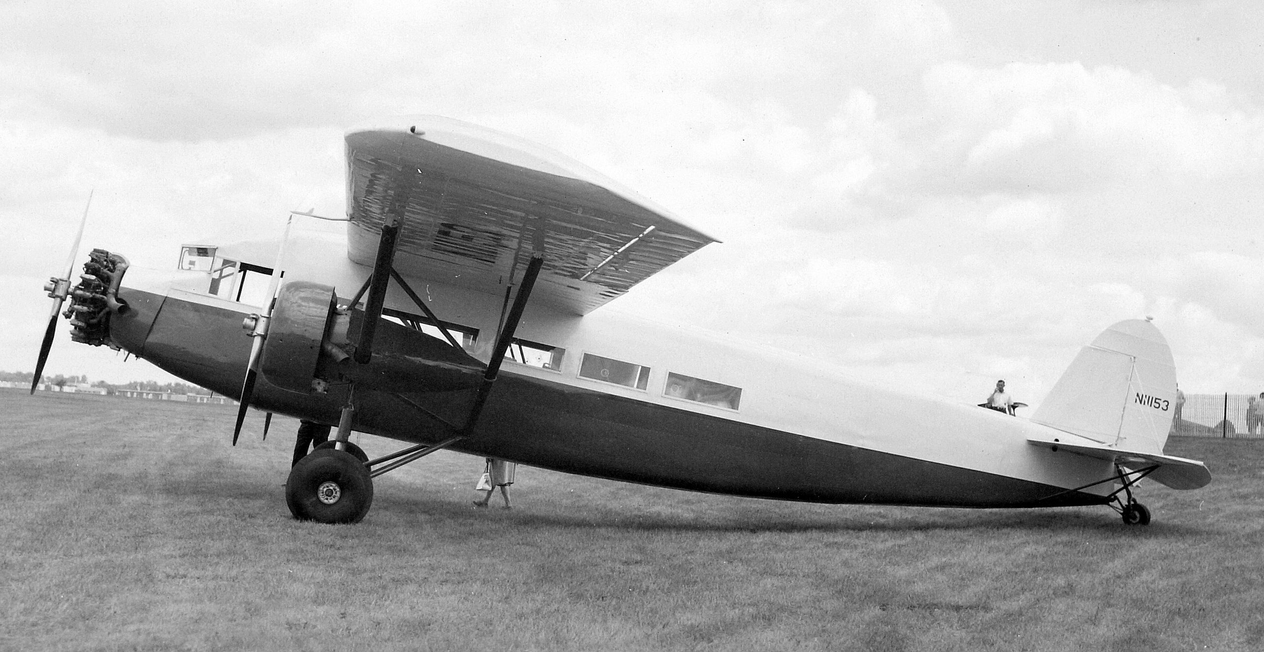 A Stinson SM-6000-B, registration N11153. Charles M. Daniels Collection Photo Catalog #: 15_000333 Title: Charles M. Daniels Collection Photo Aircraft/Subject: Stinson Stinson SM-6000-B Daniels Album Name: American Manufacturers III N to W Album Page #: 81 Repository: San Diego Air and Space Museum